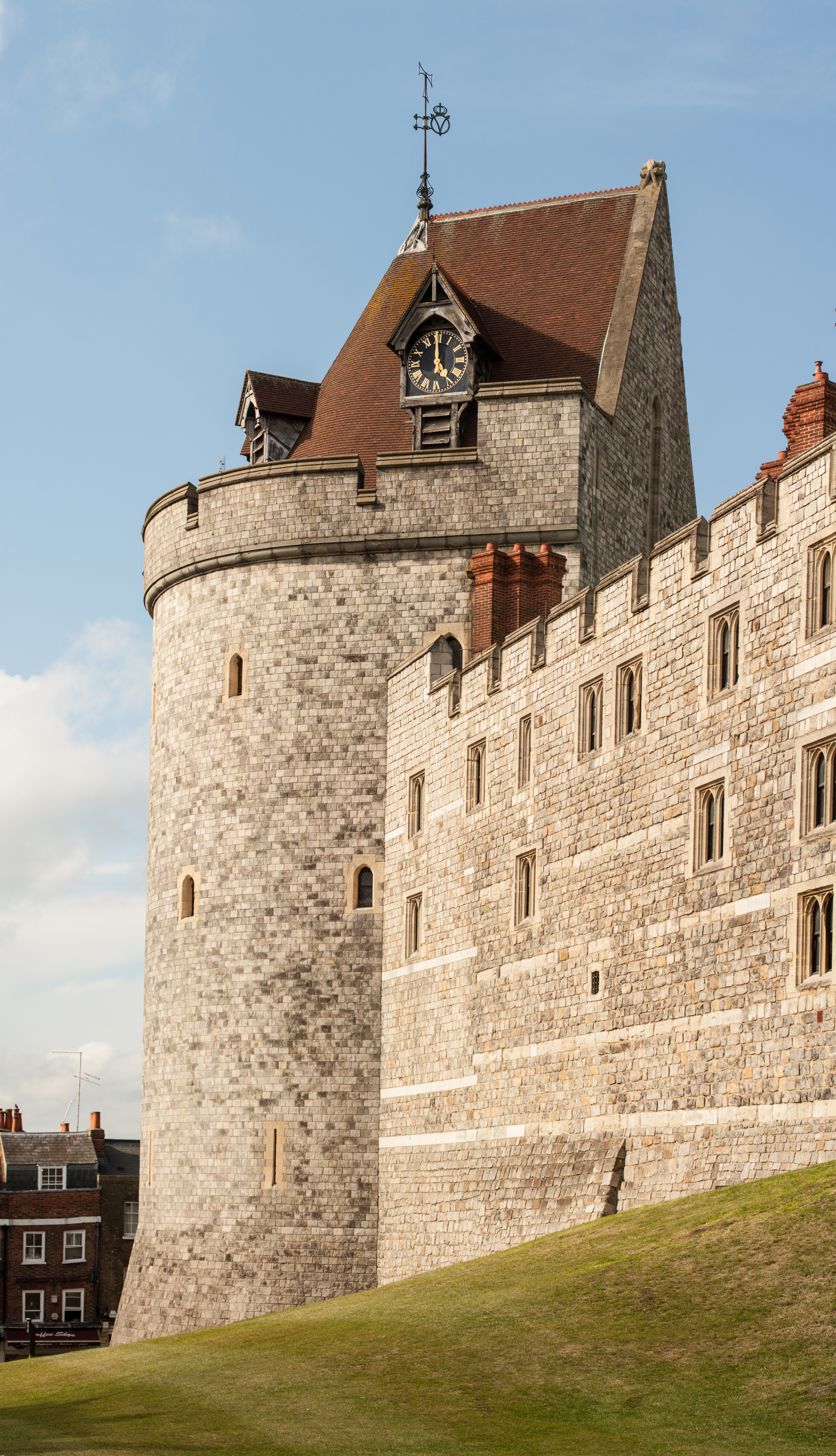 Curfew Tower, part of Windsor Castle.